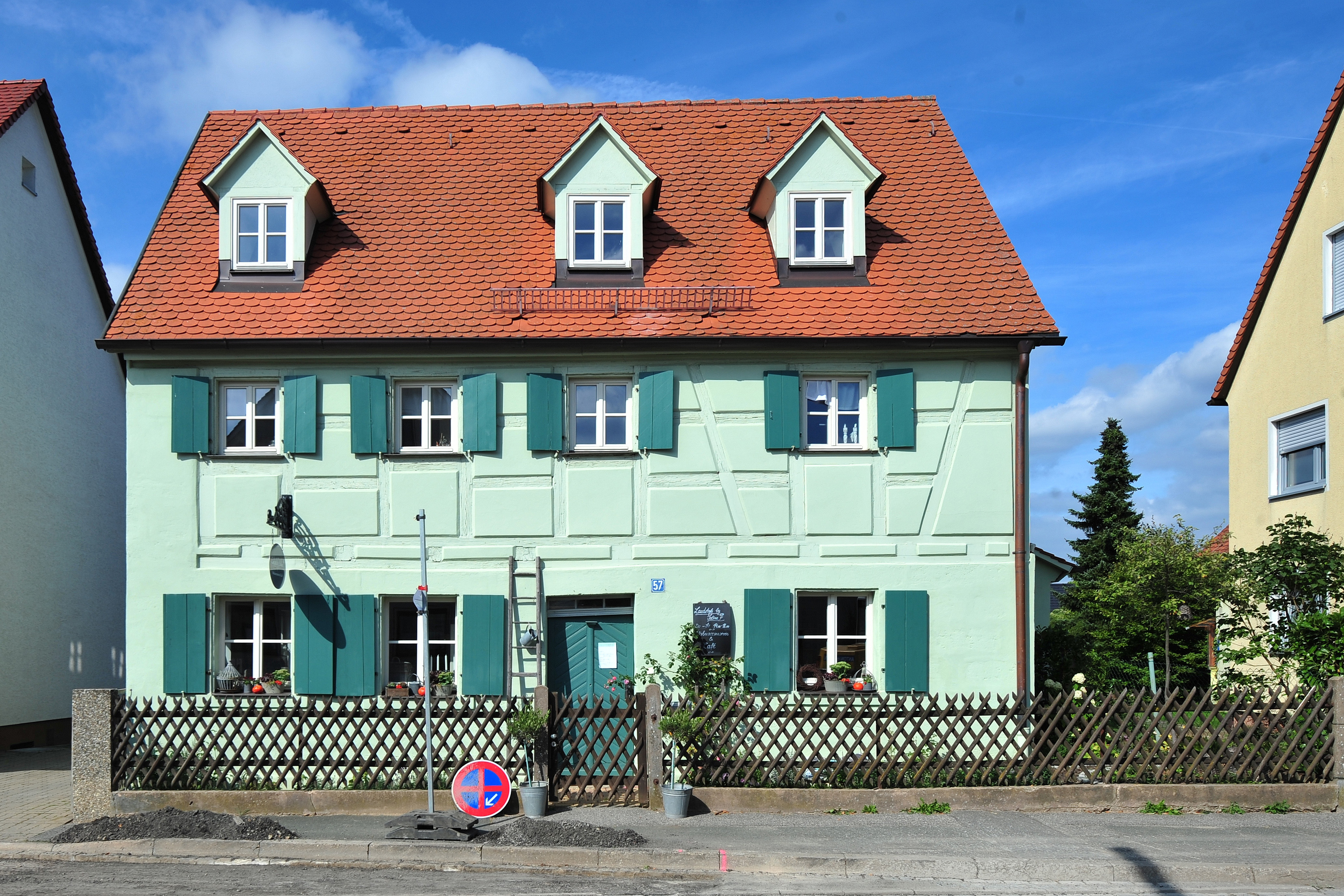 Kalchreuth, Käswasserstr. 57 This is a photograph of an architectural monument.